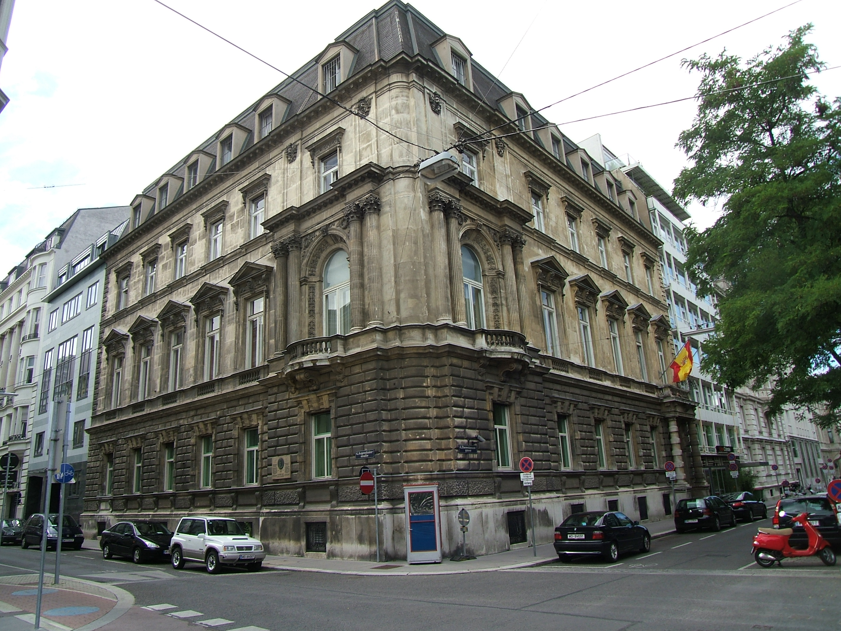 Palais Adolf Ritter von Schenk in Vienna 4th district, Theresianumgasse 21, Embassy of Spain